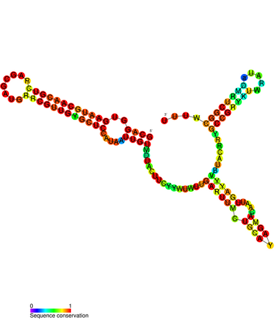 Conserved secondary structure of FrnS RNA.